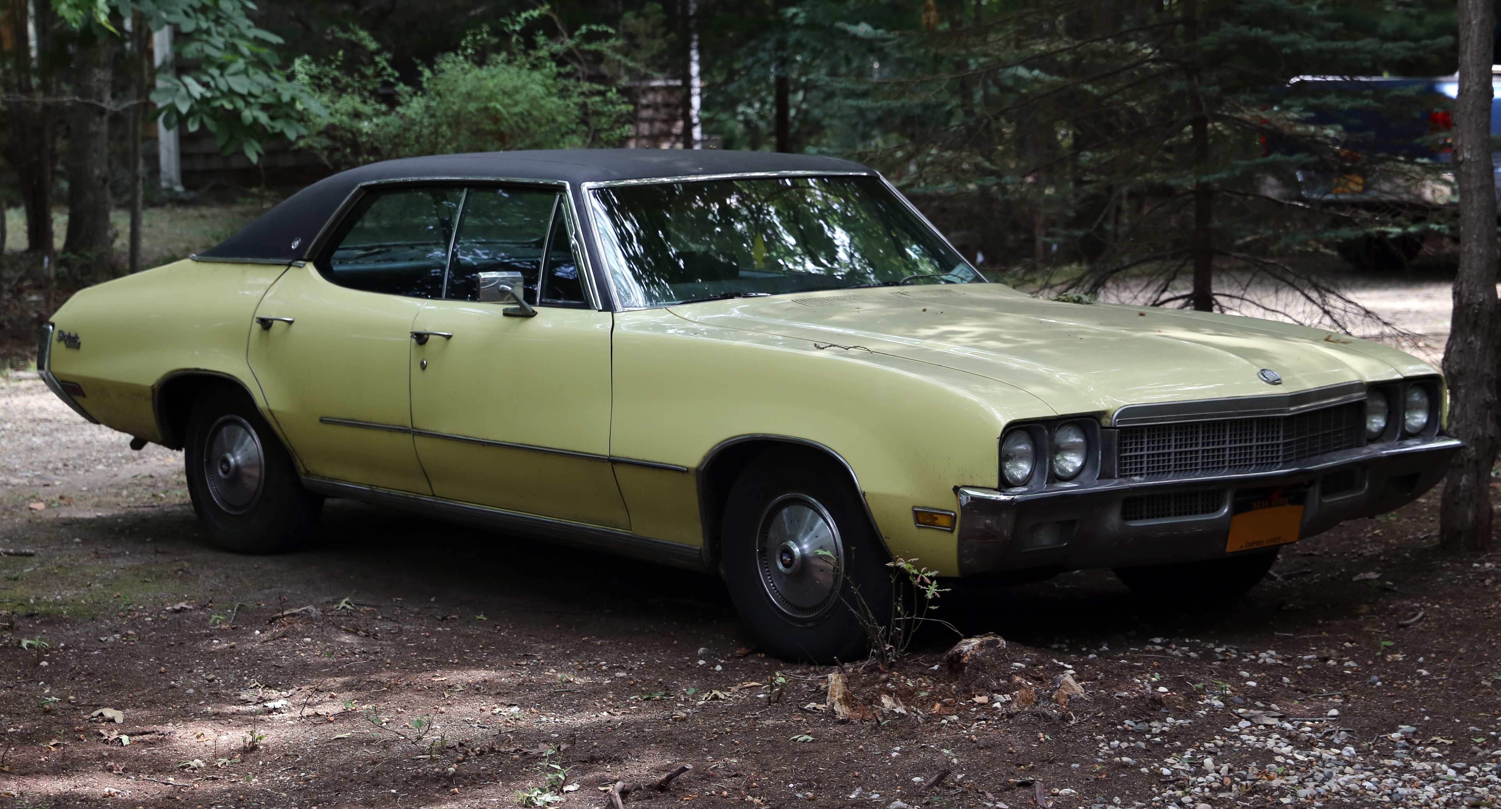 A 1972 Buick Skylark Custom four-door hardtop sedan, with the four-barrel 180hp 350ci V8 engine and assembled in Framingham, Mass. A little dank, perhaps.